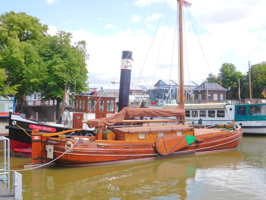 This June 2017 photo was taken in Leer. This is *NOT AT ALL* on the west bank of the Ems River.